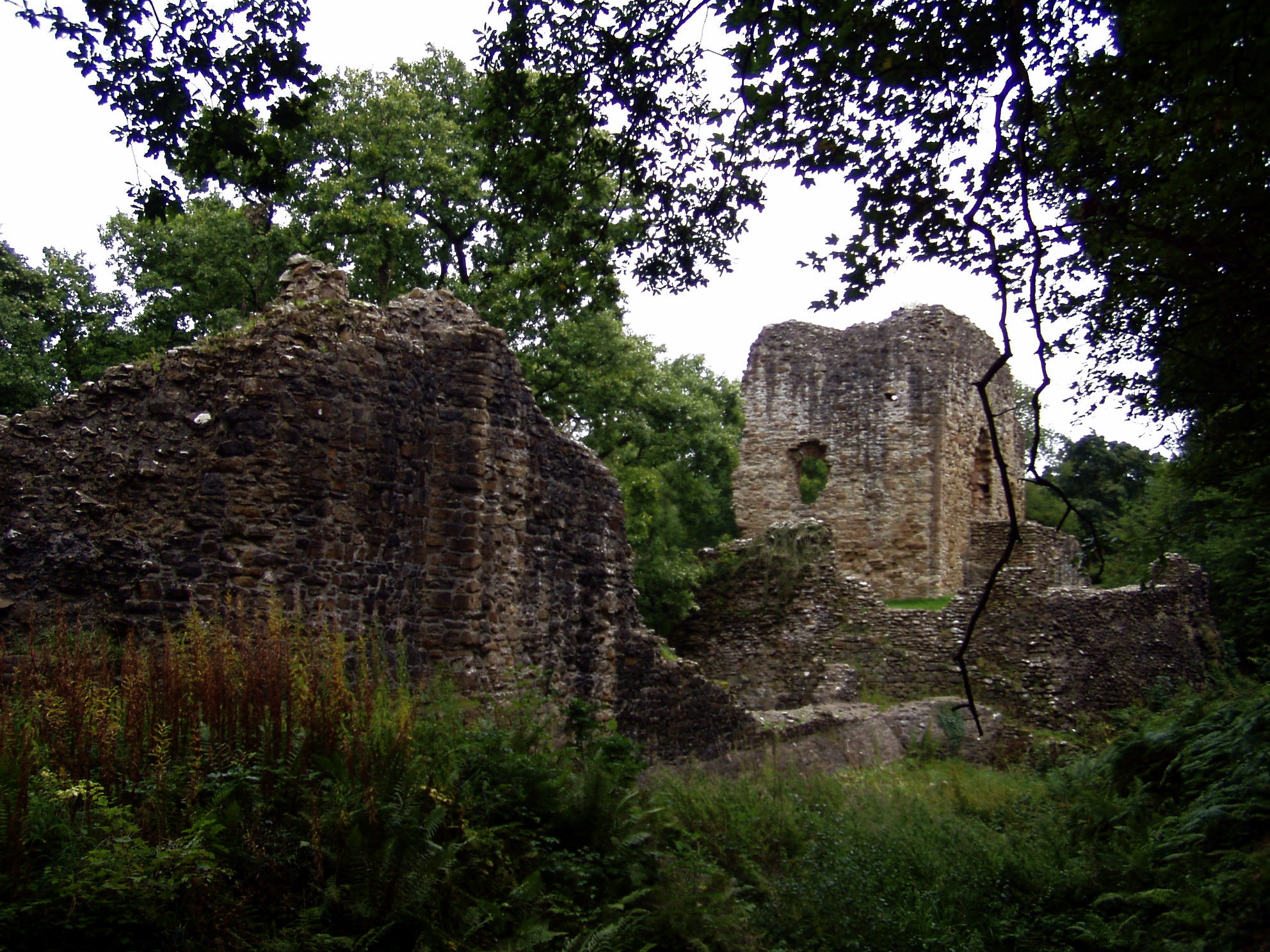 Photo by Clint Heacock